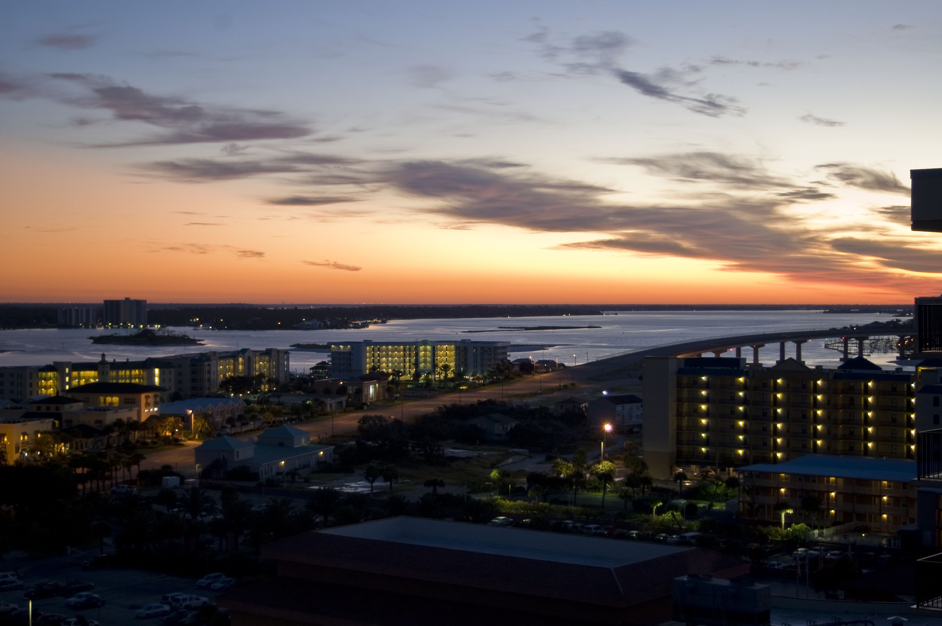 From the front of one of the Phoenix condos in Orange Beach, AL